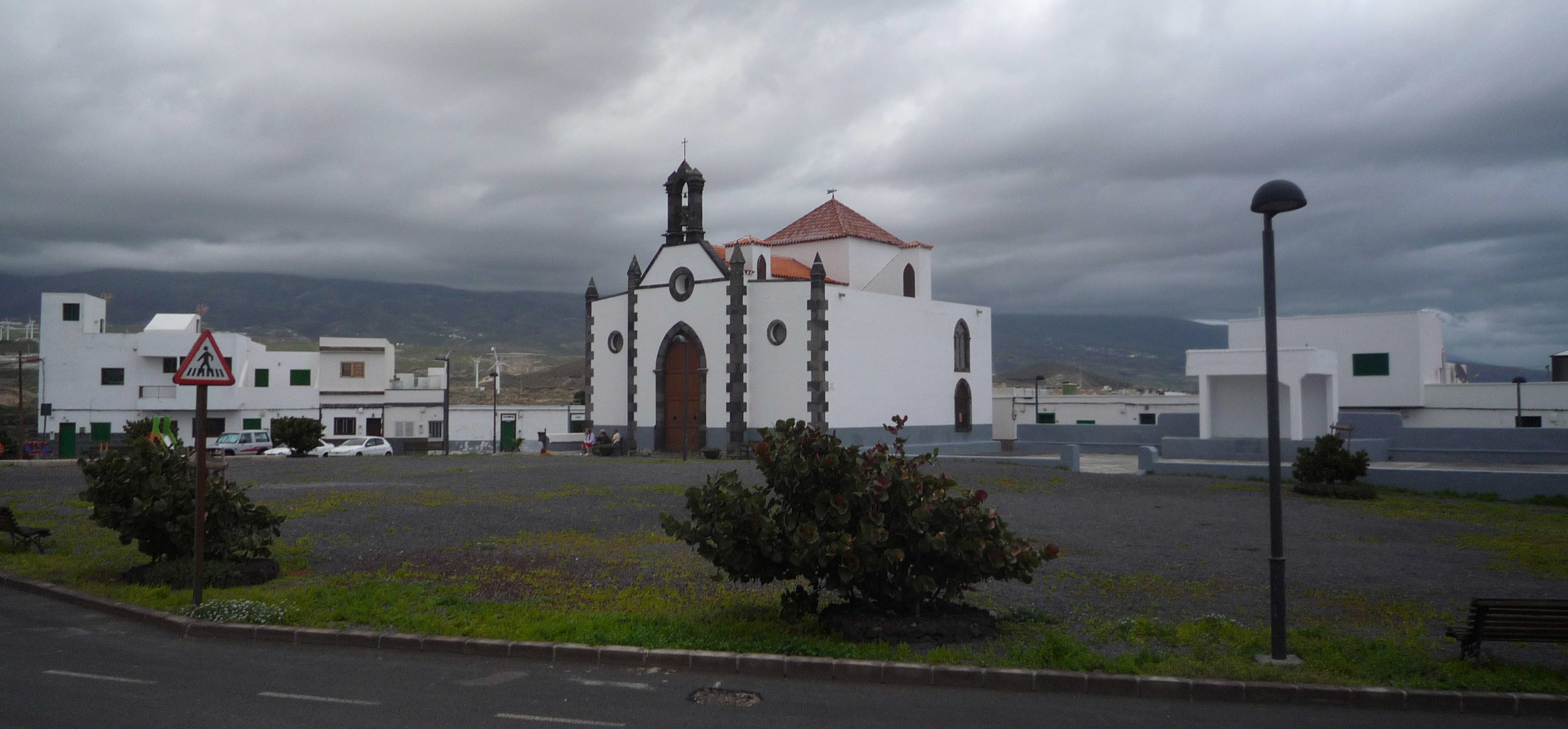 Punta de Abona in Arico municipio, Tenerife. This image on flickr gives the dedication of the church as Nuestra Señora de las Mercedes and points to this article in Spanish.